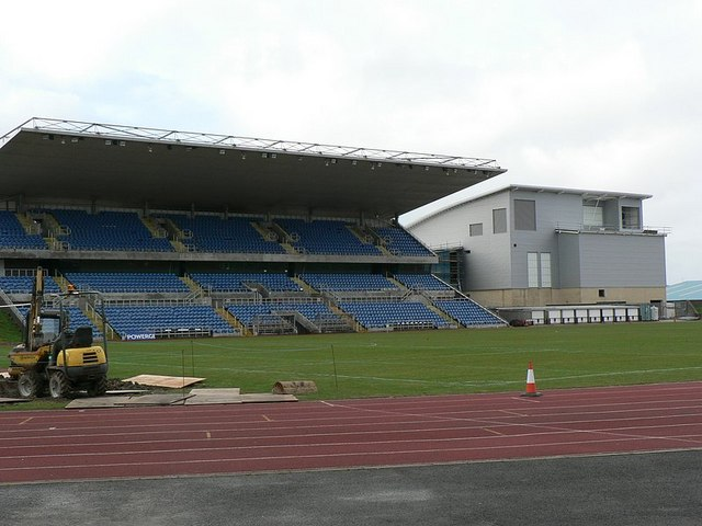 Stadium at The John Charles Centre for Sport This stadium was originally known as South Leeds Stadium, and was renamed in honour of John Charles "The Gentle Giant" (1931-2004). He was a footballer who played for Leeds United (1948-1957) and Wales (1950-1965). See his entry on Wikipedia John_Charles The stadium is the home of Hunslet Hawks Rugby League, and hosts athletics events.